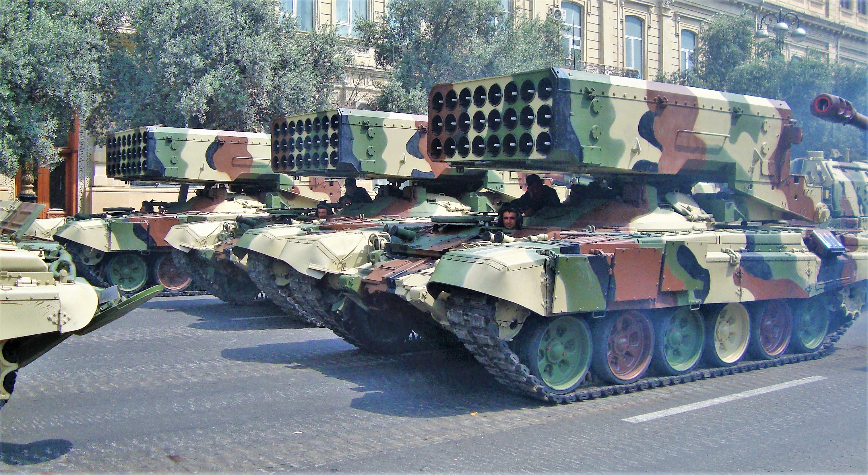 Azeri TOS-1